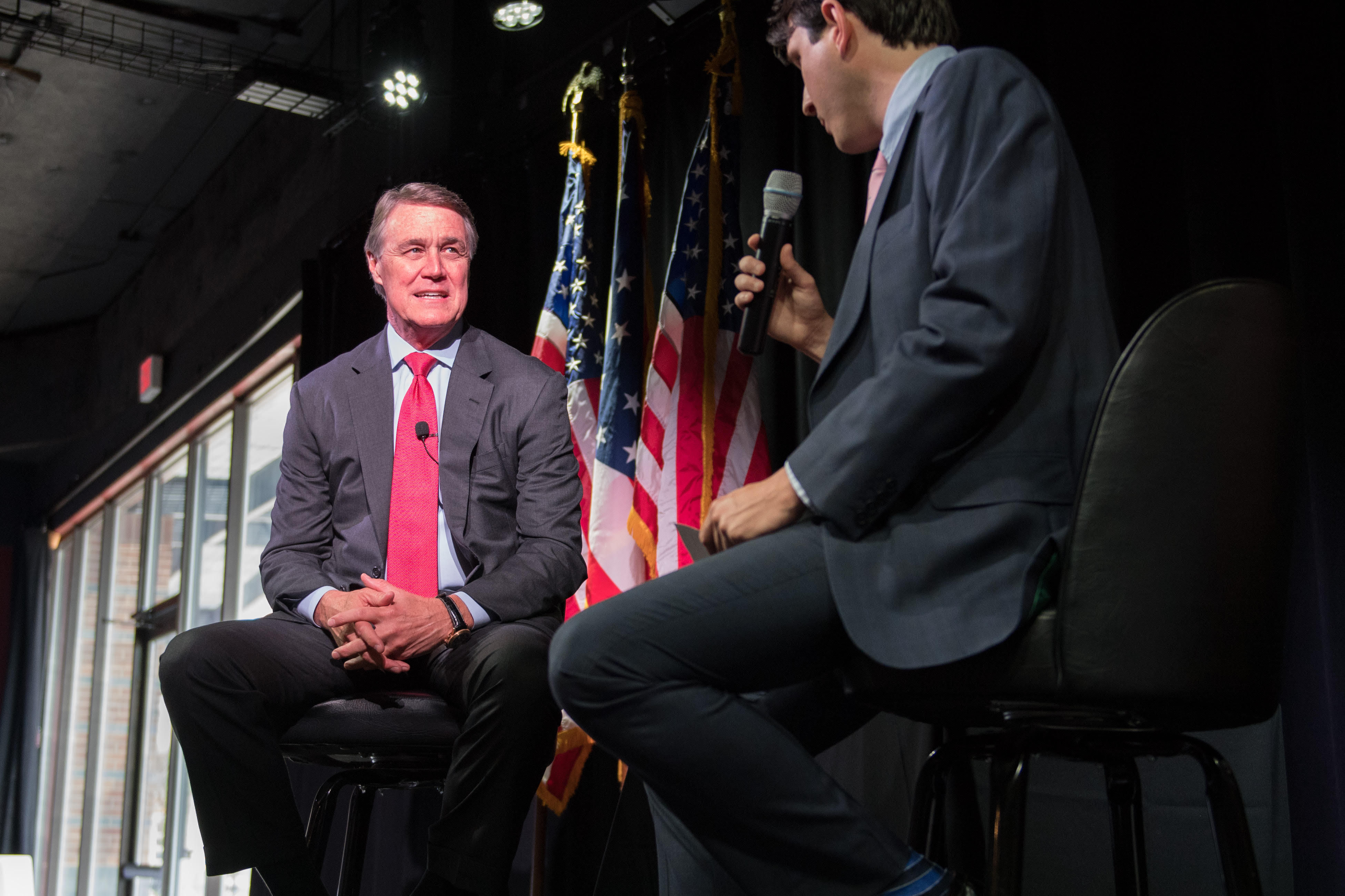 U.S. Senator David Perdue at 2016 Republican National Convention.